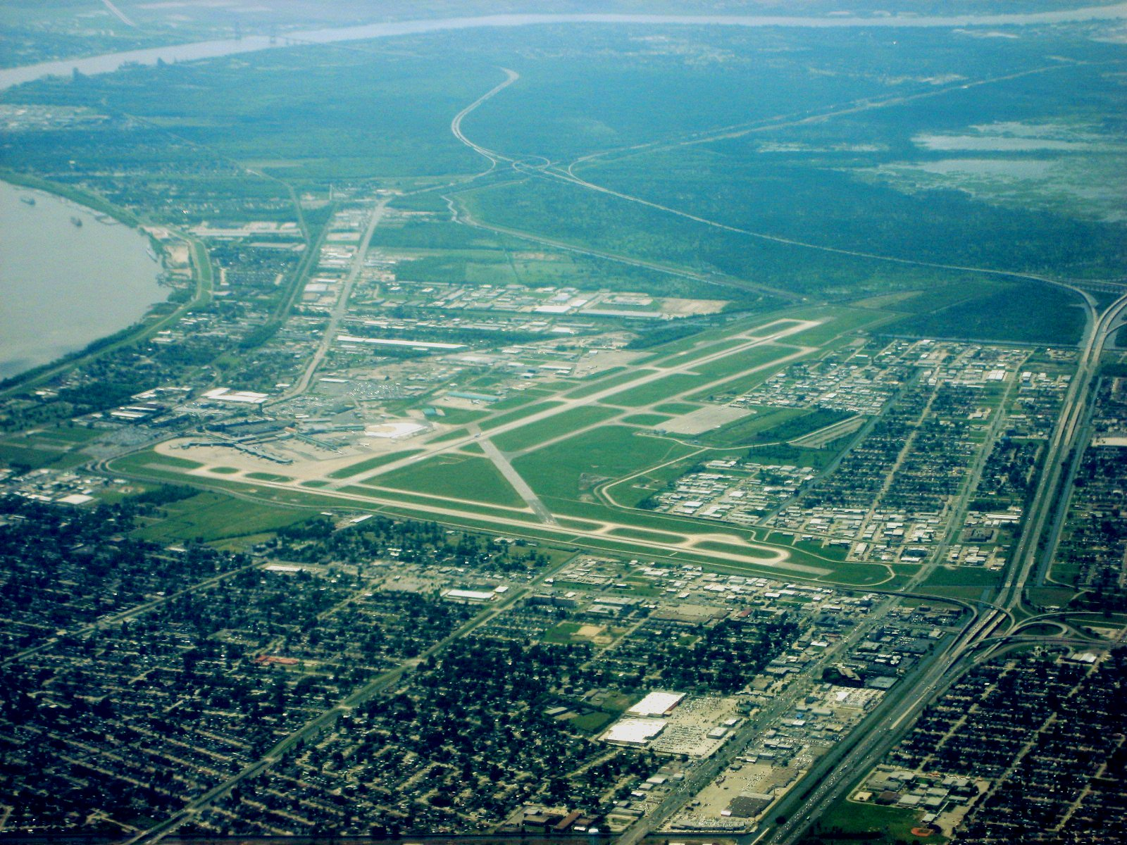 Aerial photo of Louis Armstrong New Orleans International Airport, Kenner, Louisiana. I took this picture from a commercial flight out of KMSY